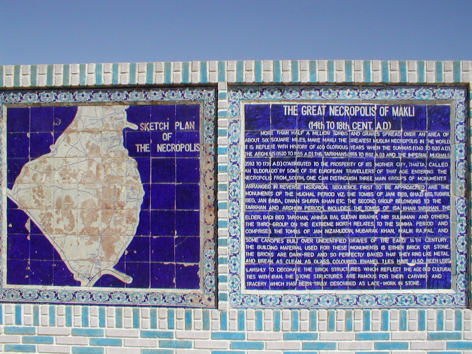 Tombs at the necropolis. Picture is taken in October 2005.